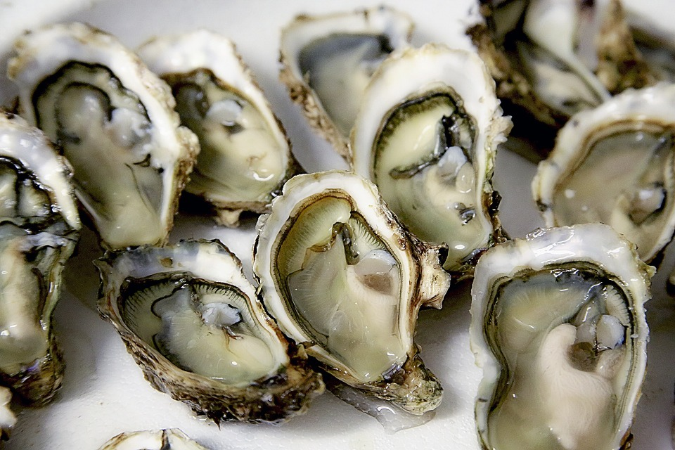 oysters